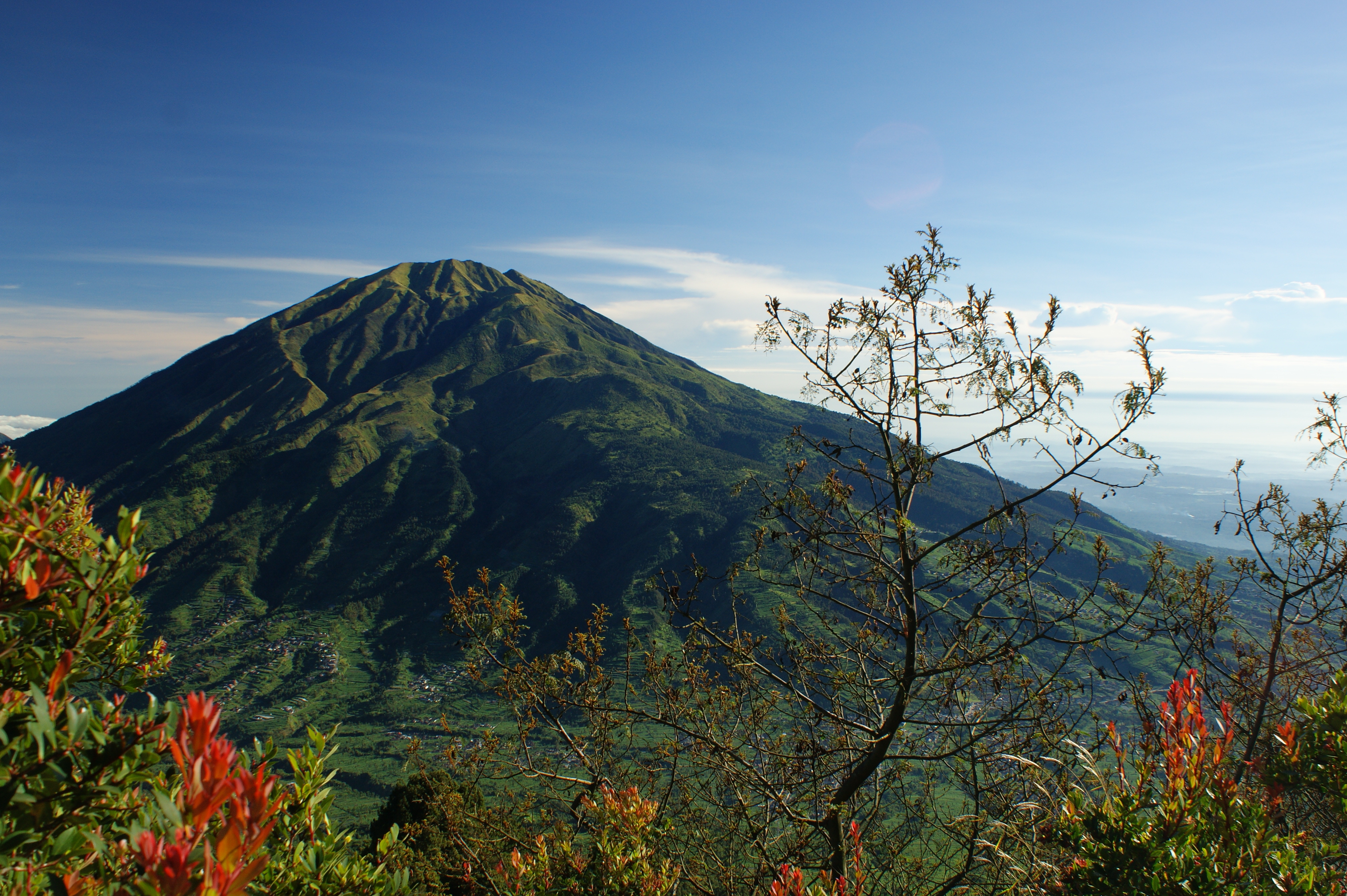 Mount Merbabu, Central Java, as seen from neighbouring Merapi